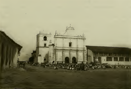 Picture of the iglesia of Coban. 1898